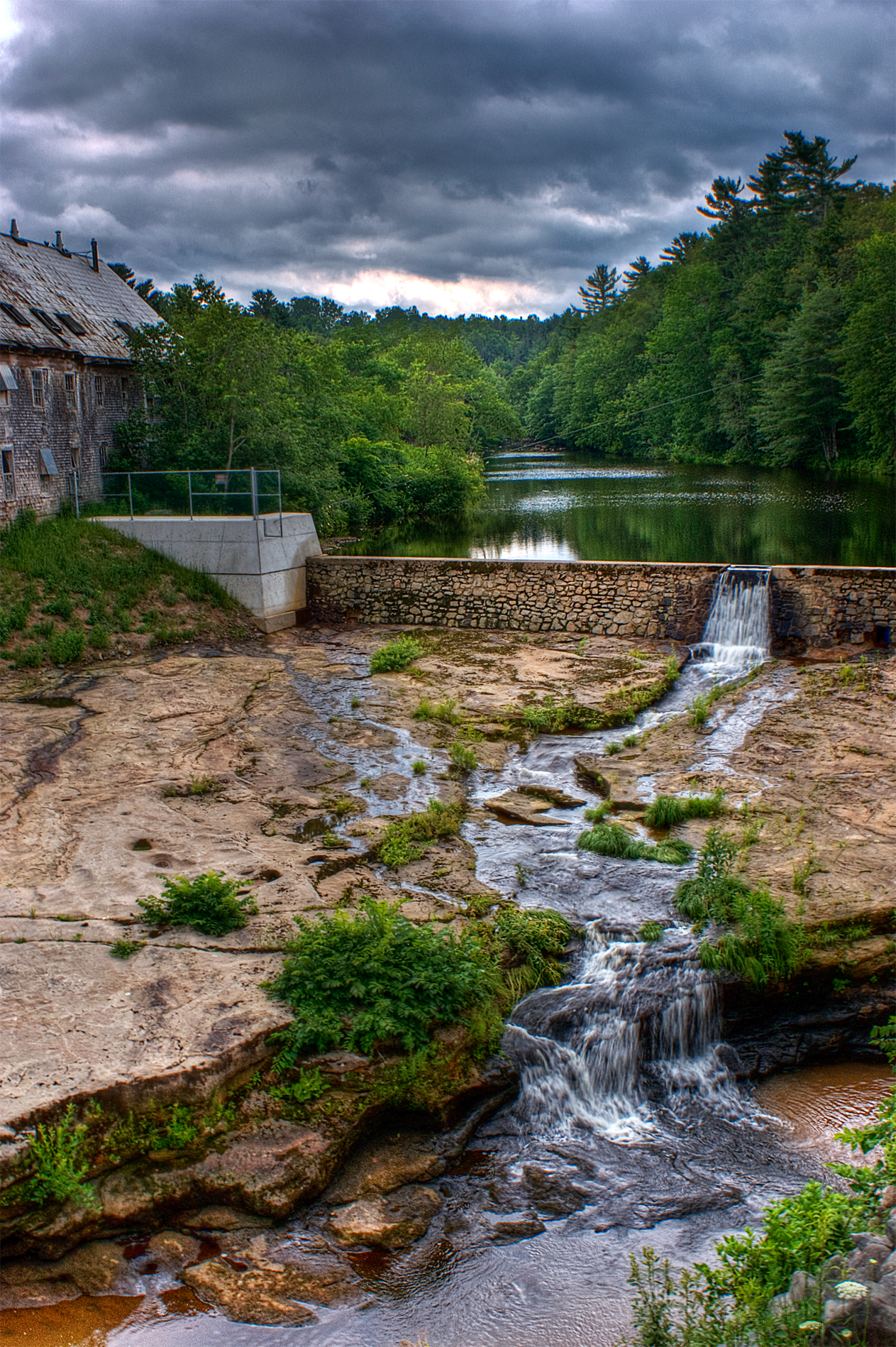 New Minas hydro plant, St. Croix River (lower dam at St Croix), Nova Scotia.